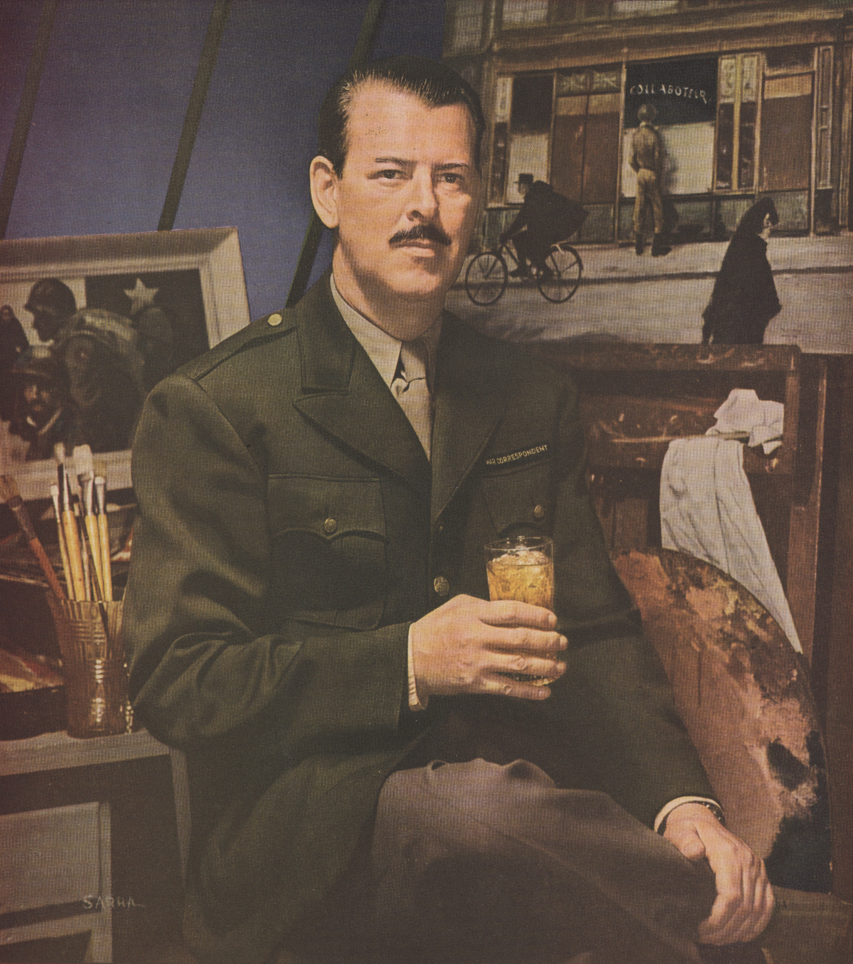 Floyd Davis with drink (probably Lord Calvert Whisky) in hand